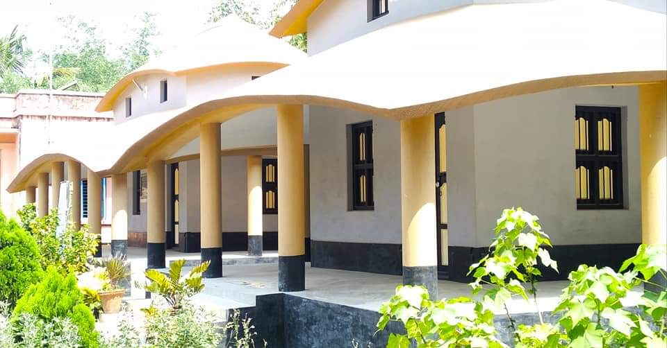 Ishwar Chandra's House at Birsingha village, Paschim Medinipur, WB, India.